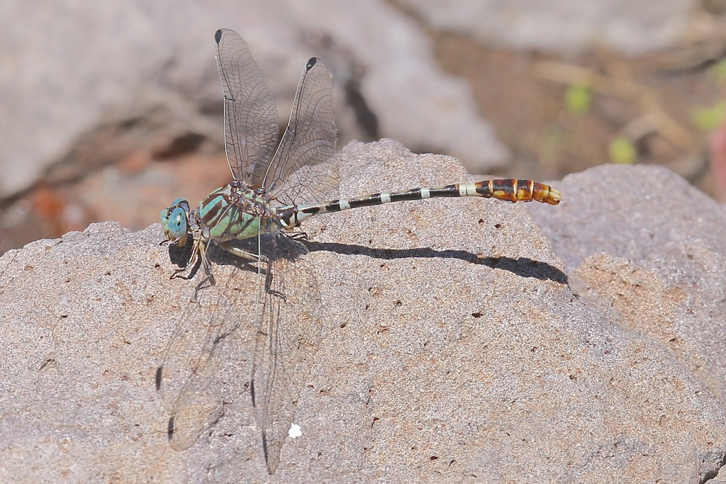 Serpent Ringtail (Erpetogomphus lampropeltis), Catron, New Mexico, United States